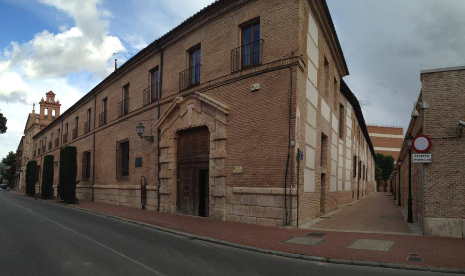 Colegio-Convento de Padres Basilios de San Basilio Magno en Alcalá de Henares.